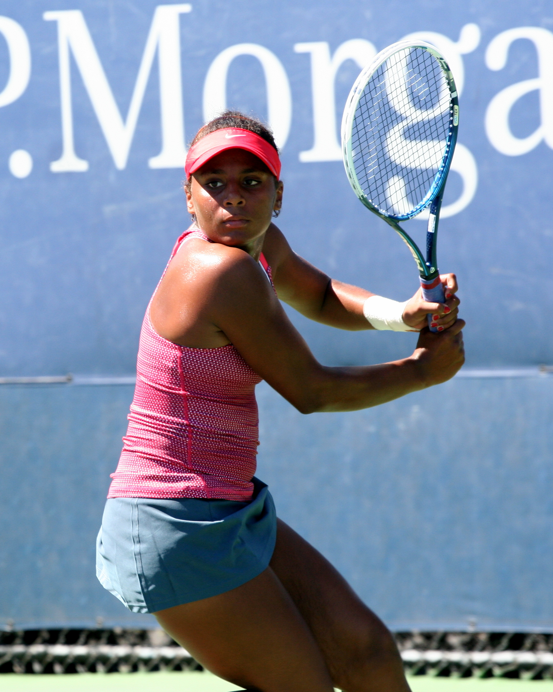 Tornado Alicia Black at the 2013 US Open